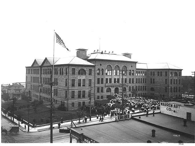 Subjects (LCTGM): Schools--Washington (State)--Seattle Subjects (LCSH): Broadway High School (Seattle, Wash.)